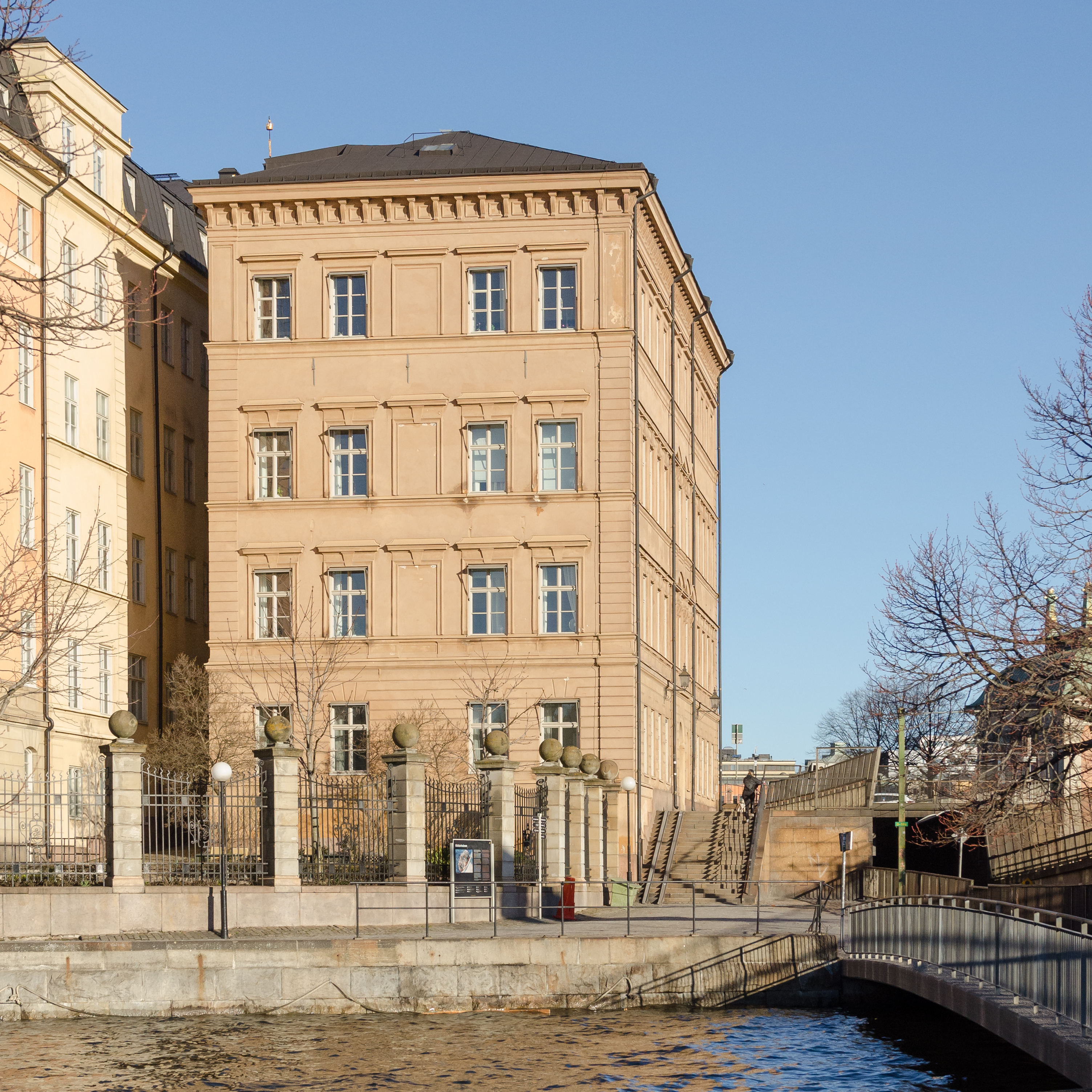 Hebbeska huset, Riddarholmen.